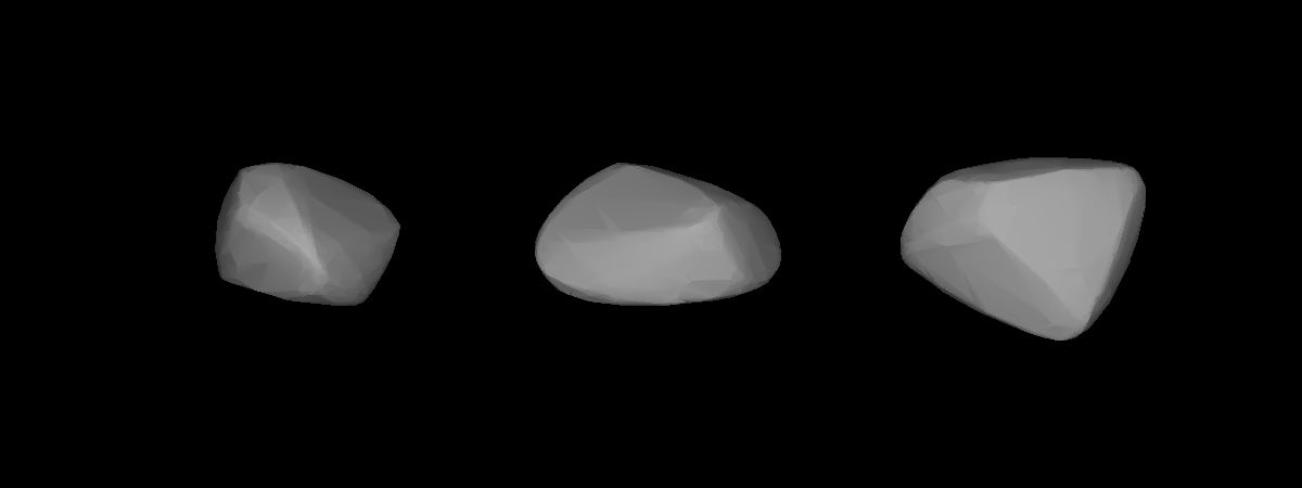 A three-dimensional model of 1635 Bohrmann that was computed using light curve inversion techniques.